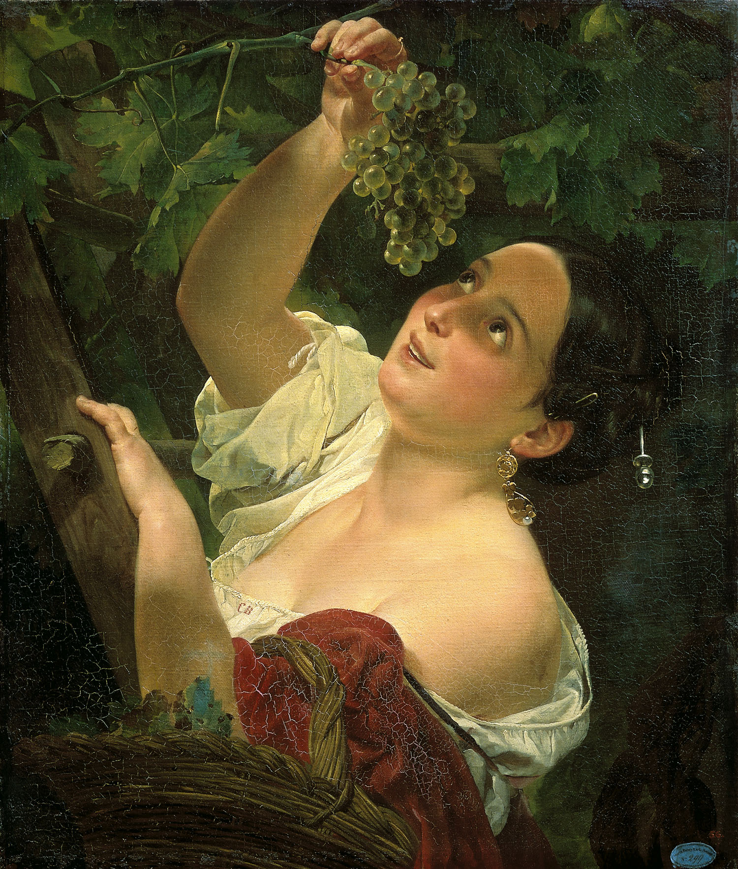 Italian Midday (Italian, which removes the grapes)label QS:Len,"Italian Midday (Italian, which removes the grapes)" label QS:Lru,"Итальянский полдень (Итальянка, снимающая виноград)"